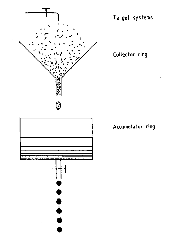 The sketch shows a hydraulic analogon to illustrate the functionality of the Antiproton Accumulator Complex that was operational at CERN. The tap represents the target systems that produce antiprotons. These are collected in the collector ring with a large acceptance (the funnel). The accumulator ring can be compared to a reservoir, where the antiprotons are accumulated and eventually released as even, well defined bunches.